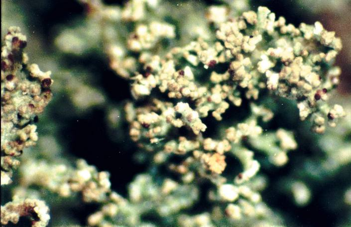 Cladonia parasitica (Hoffm.) Hoffm., 1796 Photograph of a herbarium specimen taken through a dissecting microscope (x40) showing the isidiate thallus. C. parasitica was growing on a dead limb on the ground near a small stream, down hill from the Log Cabin Cellar (Middle Sector) at Soldiers Delight Natural Environment Area, Baltimore County, Maryland, USA (N 39o24.340', W 76o50.303', Elevation 599 feet) Collected and identified by E.C. Uebel (No. U-601A, 31 May 2006)